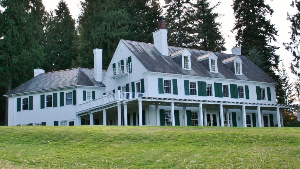 The Clark Mansion in Hayden Lake, Idaho. Front View